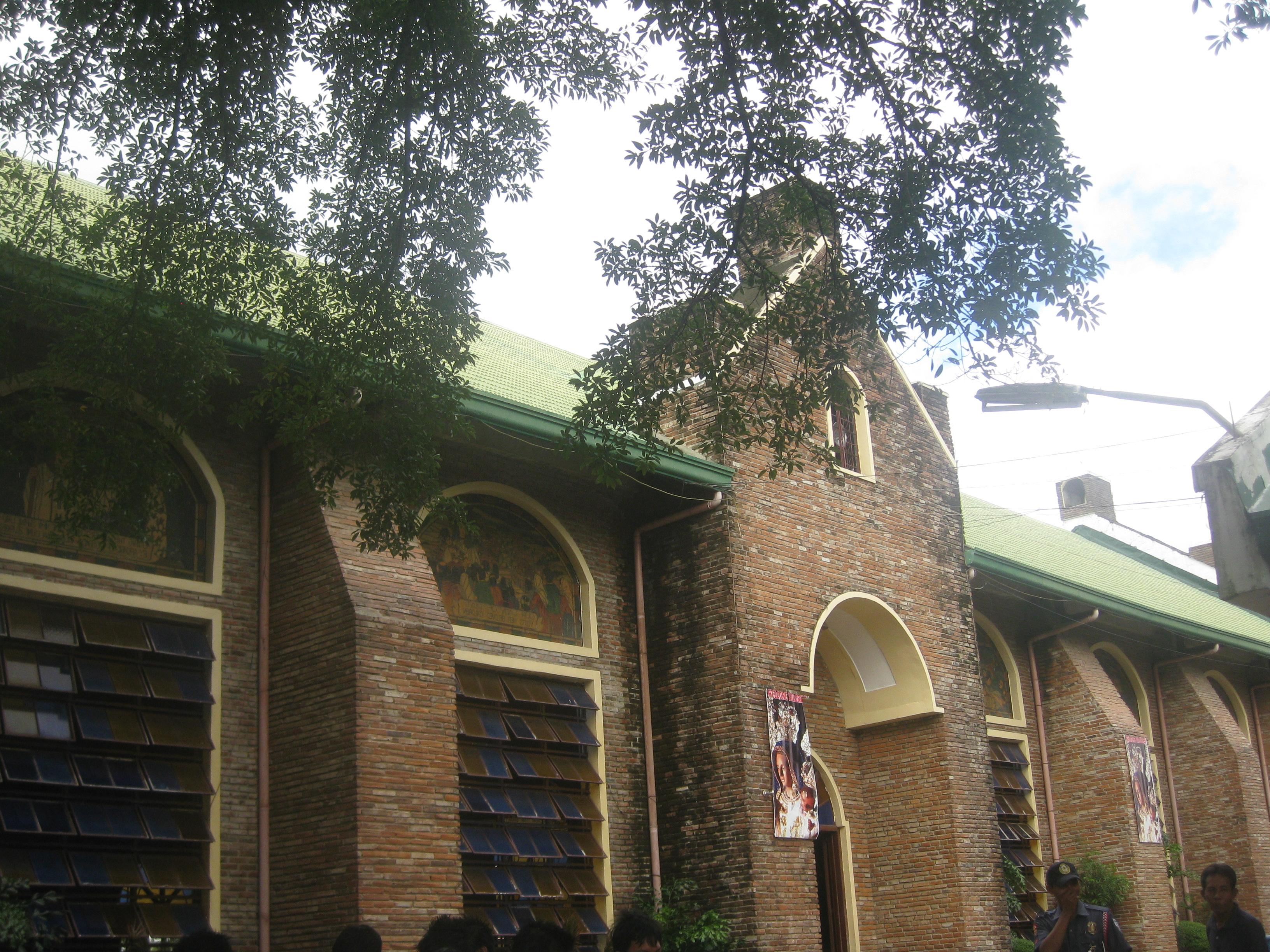 This is the exterior architectural design of Piat Basilica shot on its side view.